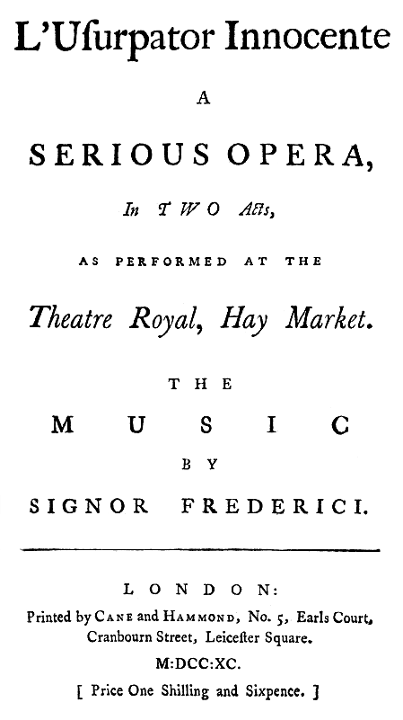 Vincenzo Federici - L’usurpator innocente - titlepage of the libretto - London 1790